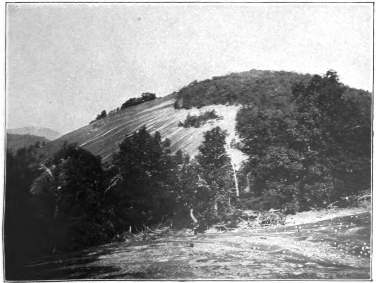 Original caption: Stone Mountain, a granite dome, Wilkes County, NC.